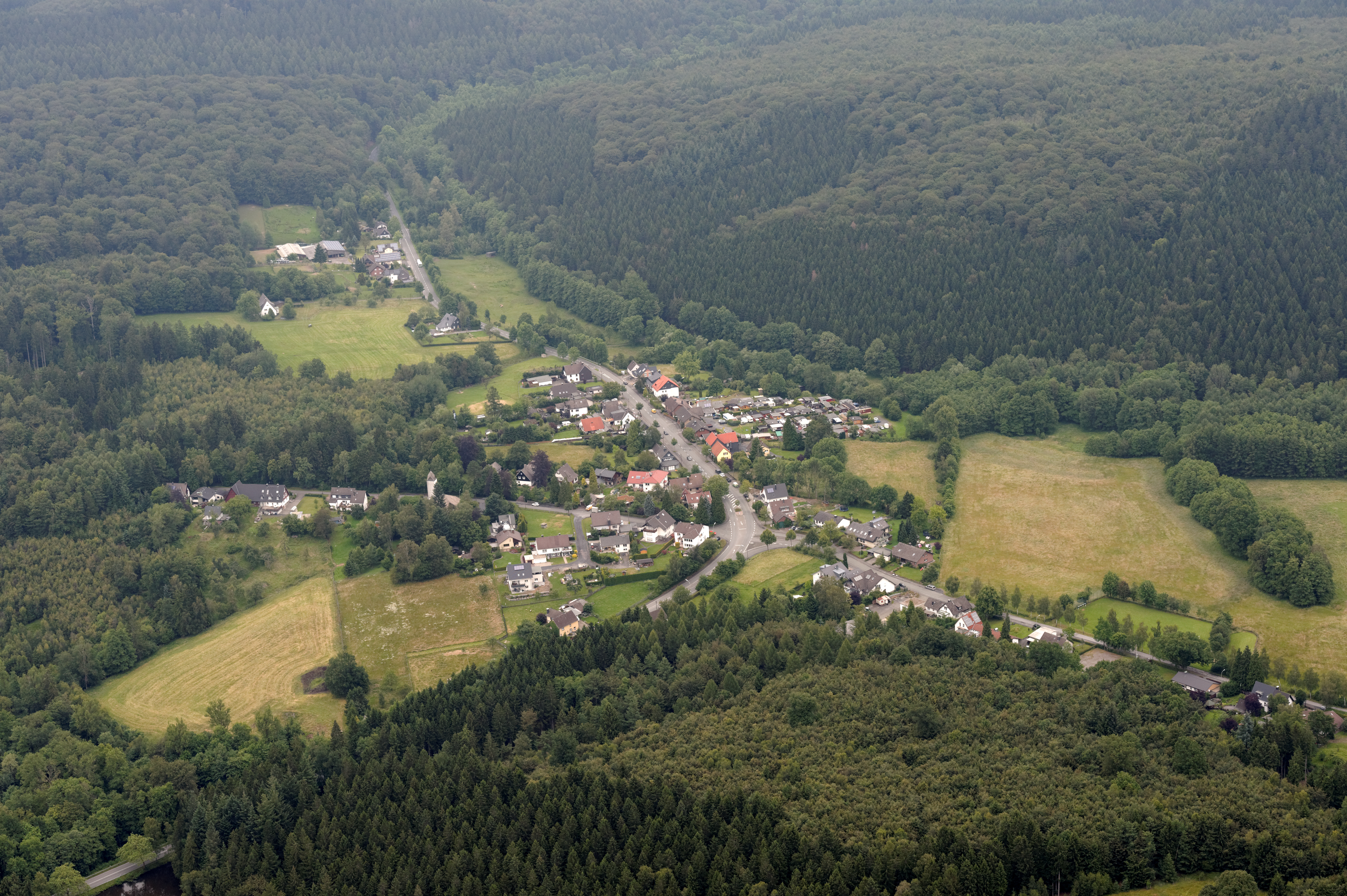 Arnsberg-Breitenbruch (Fotoflug Sauerland Nord) The making of this document was supported by the Community-Budget of Wikimedia Germany.